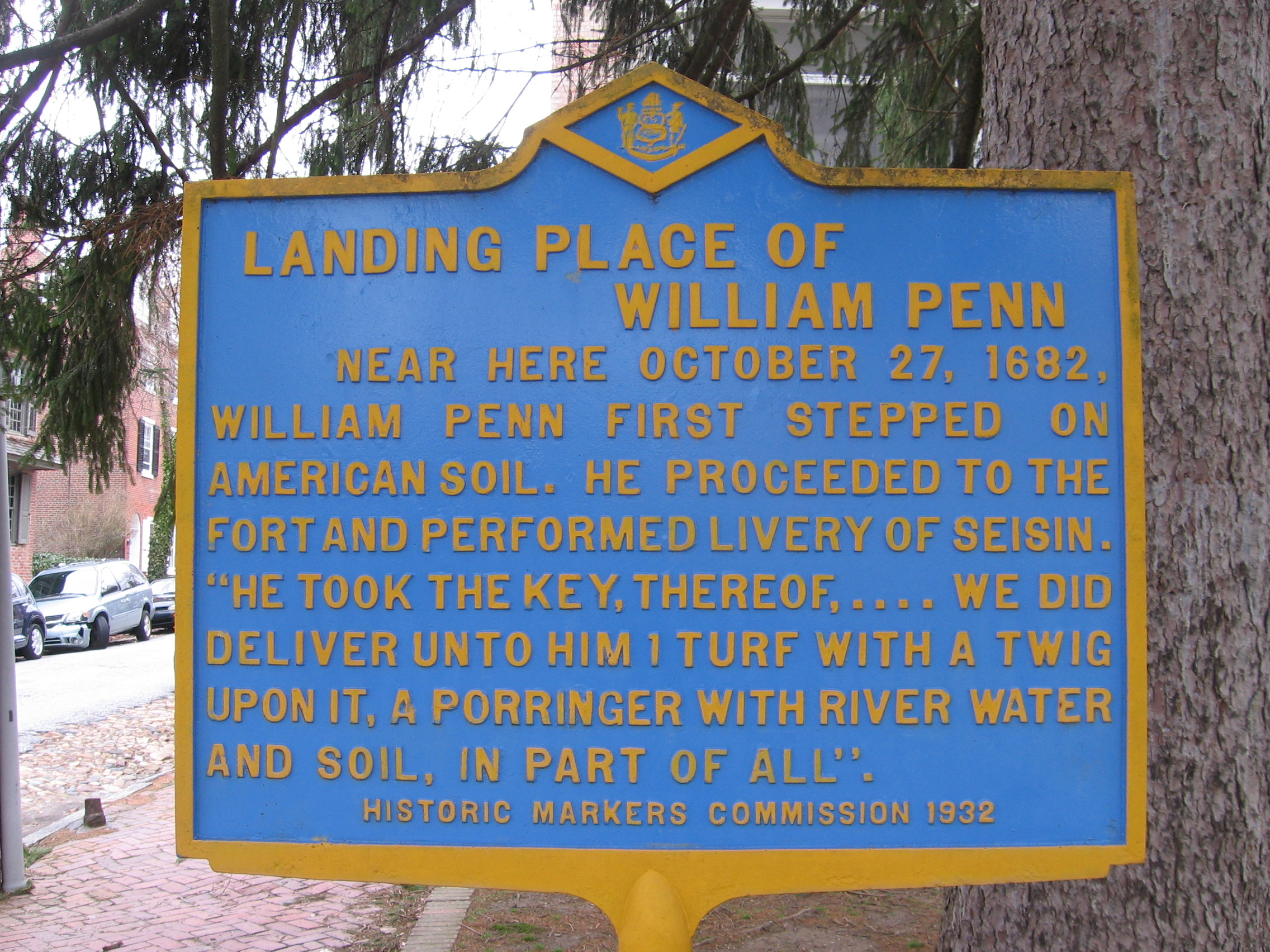 William Penn marker, Newcastle, Delaware